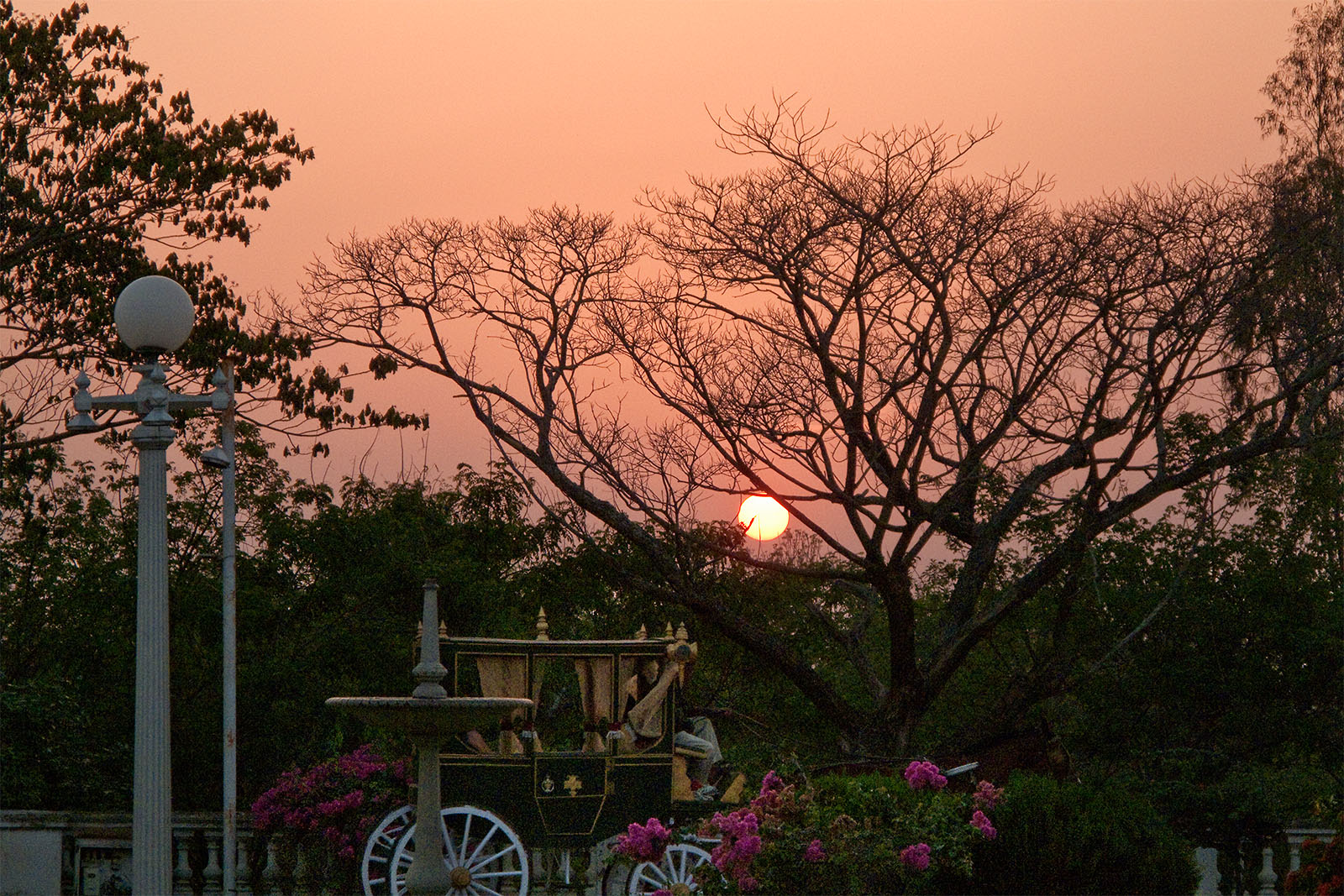 50 rupees for a ride in the carriage around the hotel